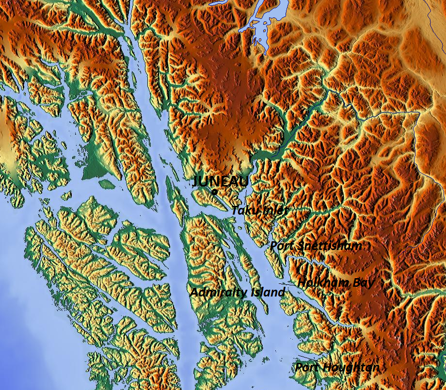 Relief map of southern Juneau, Alaska